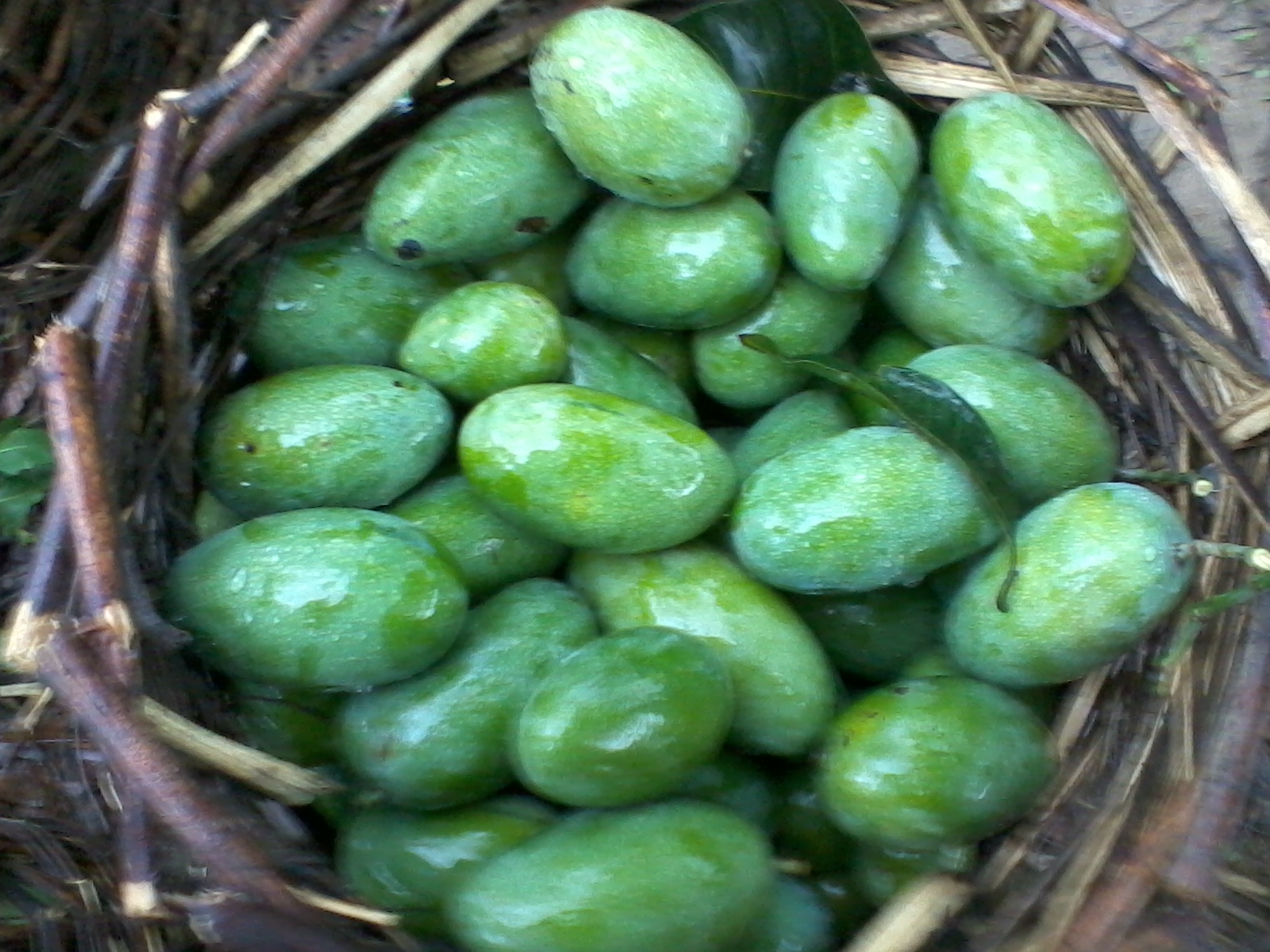 Green Mango in raw form direct from Mango orchid.